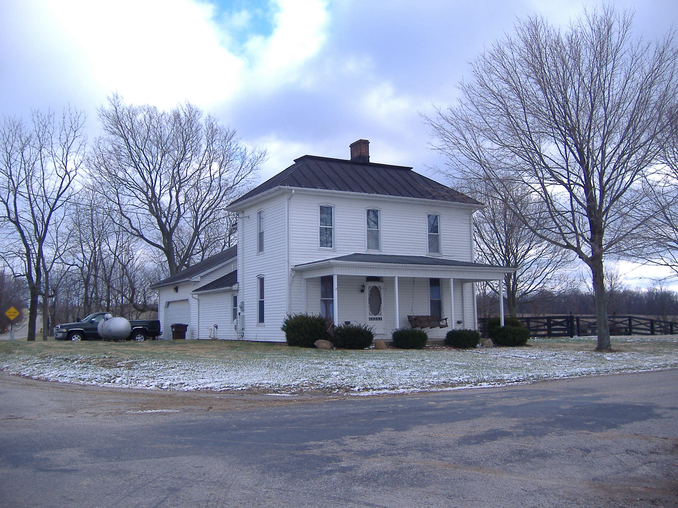 The Joseph Black farmhouse located at 9862 Heffner Road in Pickaway County, Ohio.